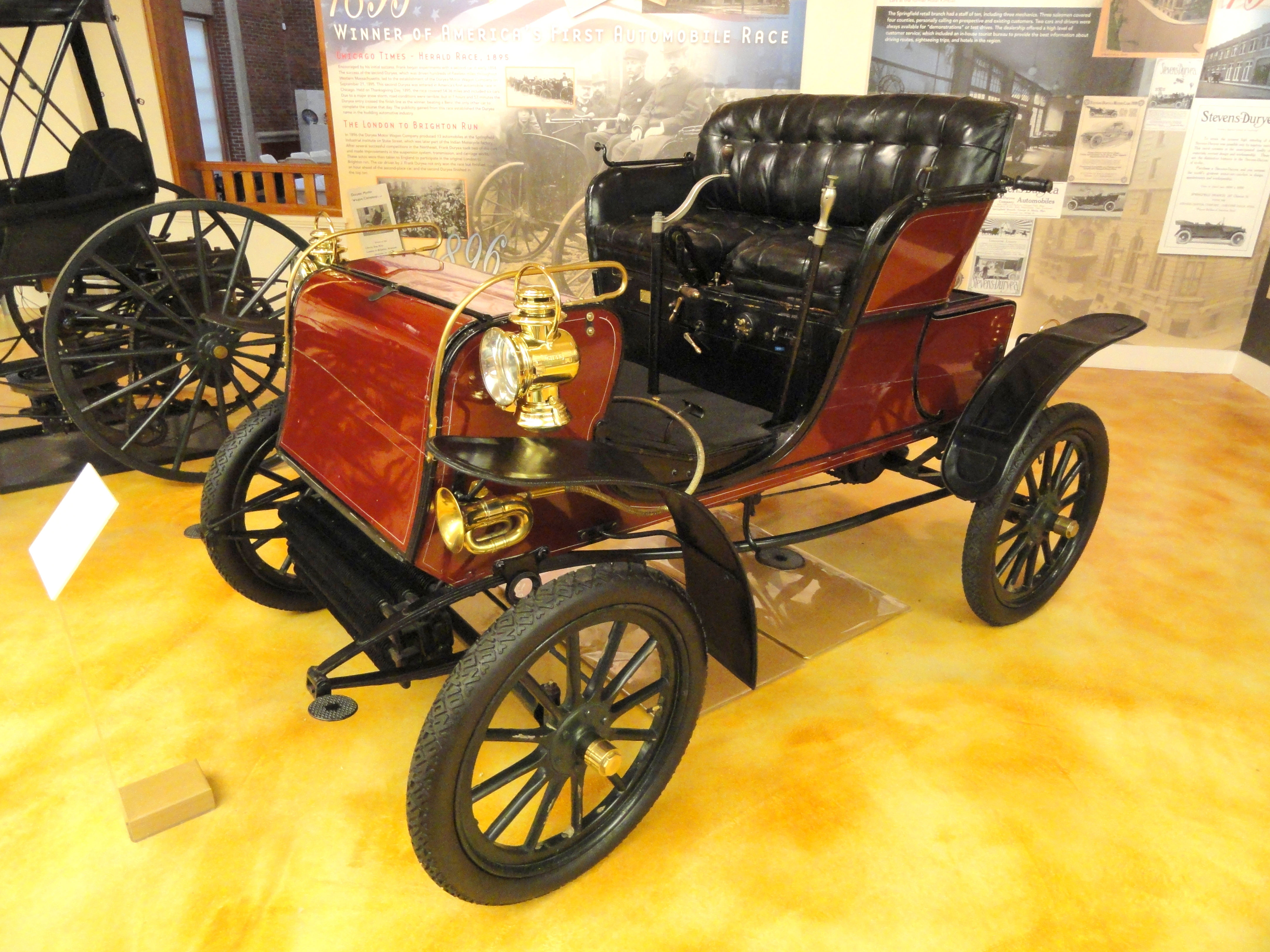 Exhibit in the Lyman & Merrie Wood Museum of Springfield History, Springfield, Massachusetts, USA. This exhibit is old enough so that it is in the public domain.